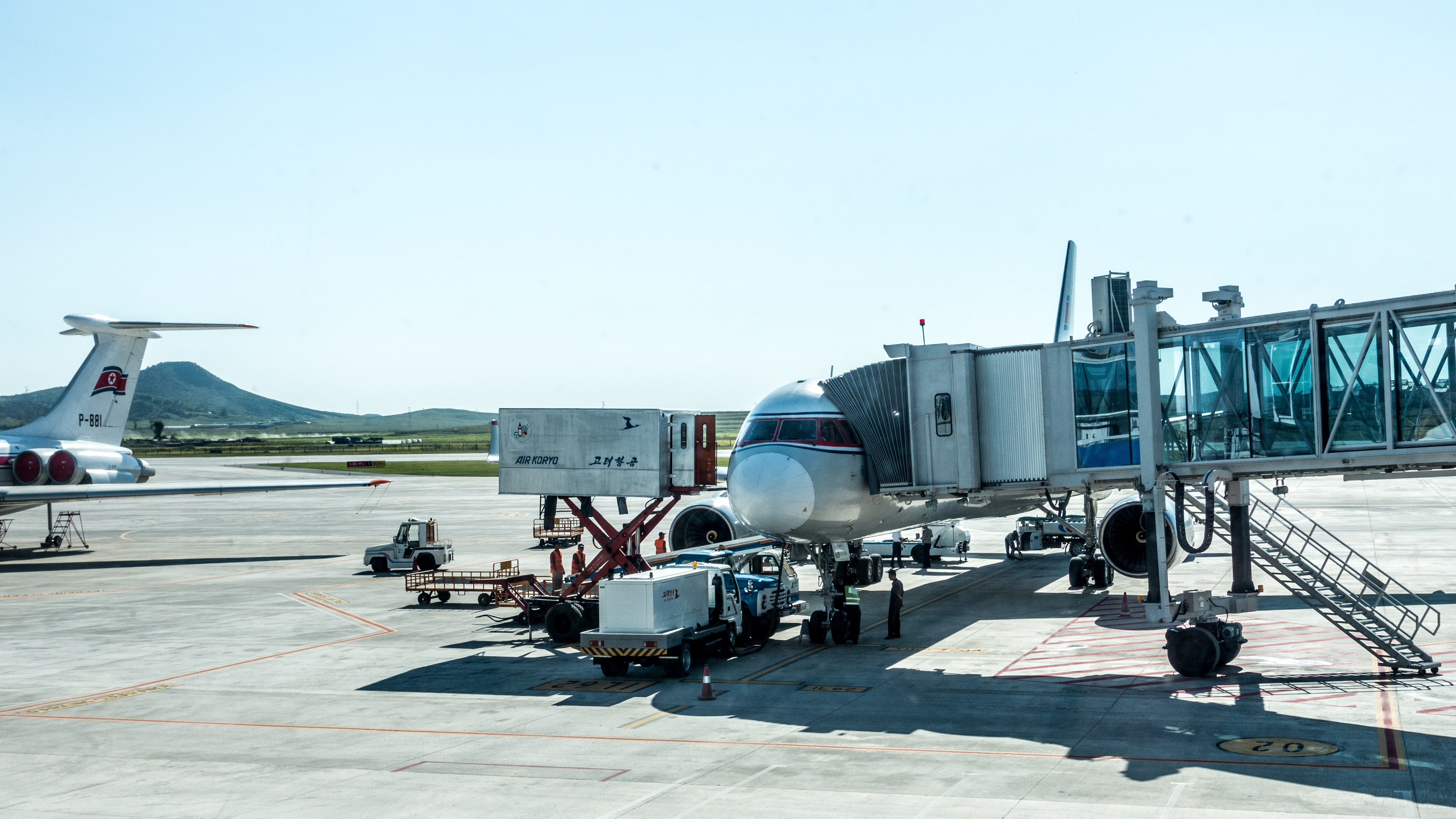 Air Koryo Tupolev Tu-204 (P-633) at Sunan International Airport